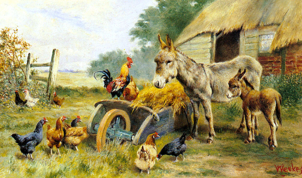 "Fowl Talk", oil-on-canvas painting by Herbert William Weekes (fl. 1864-1904)